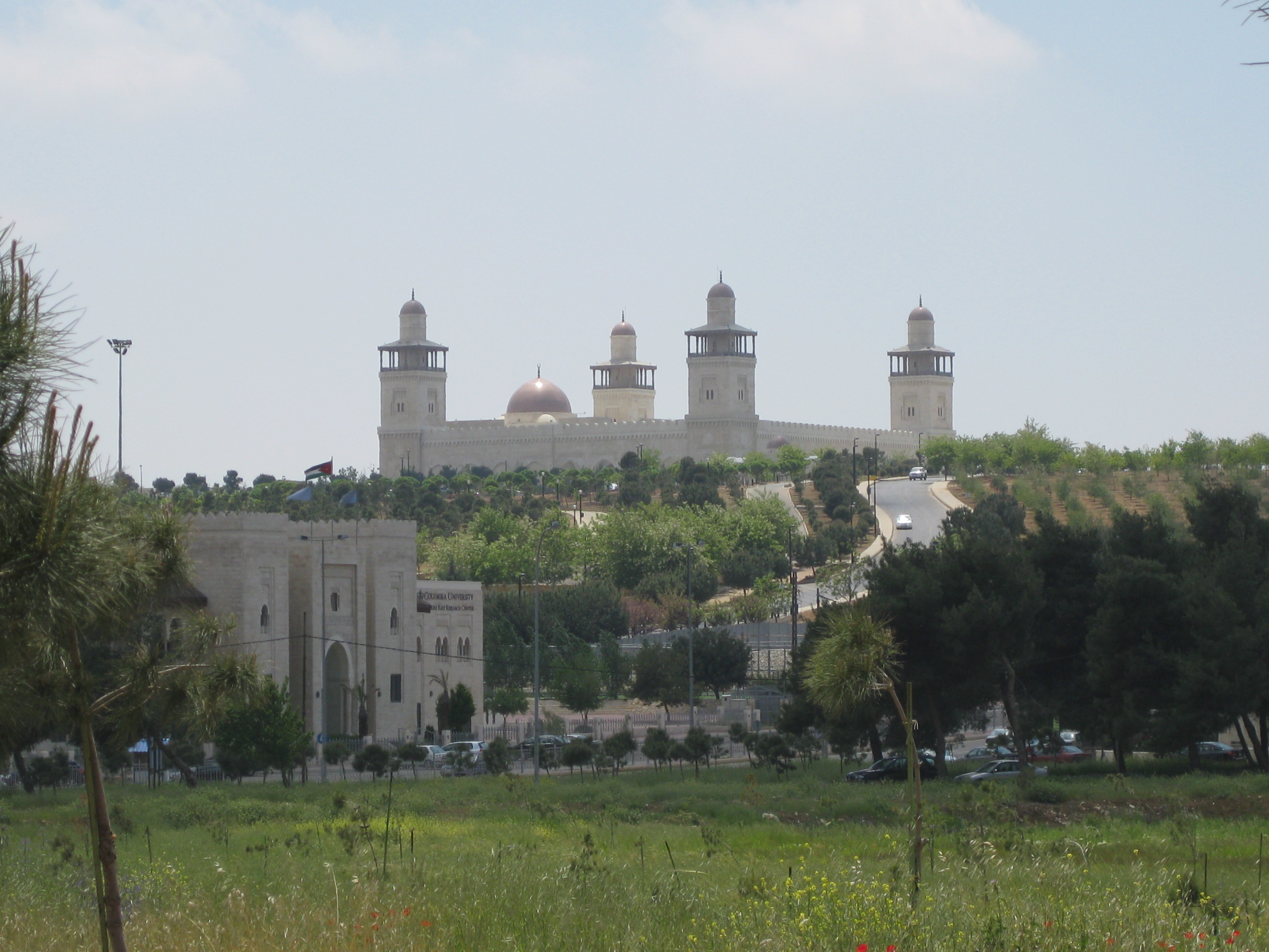 King Hussain Mousque